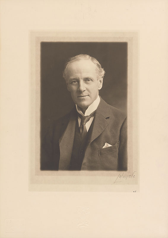 A portrait photograph of Sir Sidney Arthur Taylor Rowlatt (20 July 1862 – 1 March 1945), an English lawyer and judge, best remembered for his controversial presidency of the Rowlatt committee, a sedition committee appointed in 1918 by the British Indian Government to evaluate the links between political terrorism in India, especially Bengal and the Punjab, and the German government and the Bolsheviks in Russia. The committee gave rise to the Rowlatt Act, an extension of the Defence of India Act 1915.